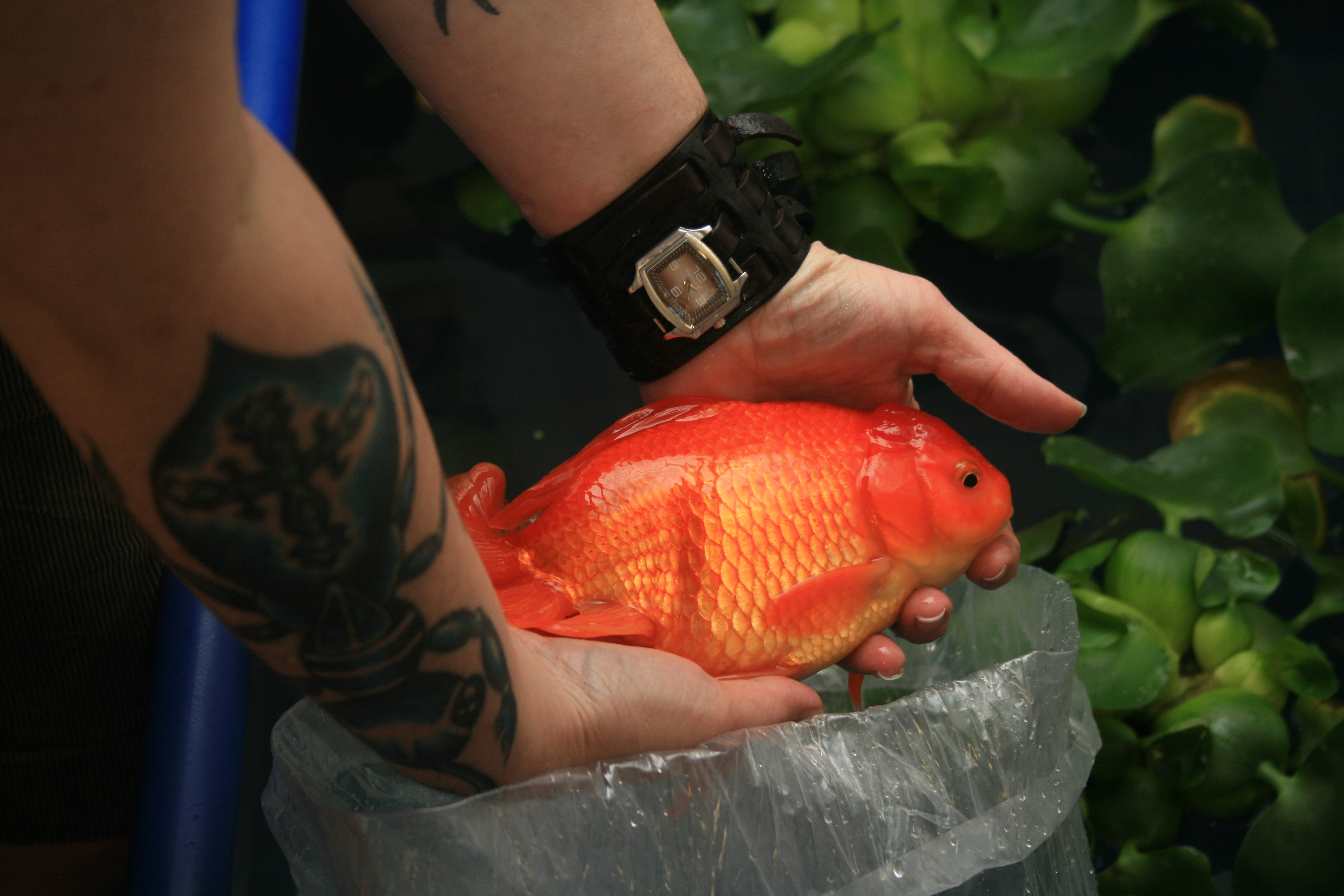 Orange Oranda Goldfish from the Goldfish Gala pond in Manchester England